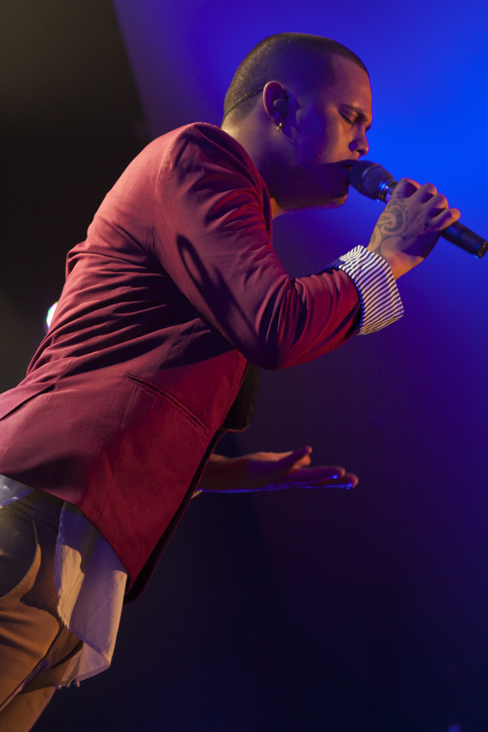 Stan Walker at the Rock Canberra's showing of the Galaxy Tour